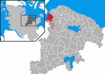 This map shows the area of the Gemeinde (municipality) Heikendorf in the Kreis (district) Plön, Schleswig-Holstein, Germany.